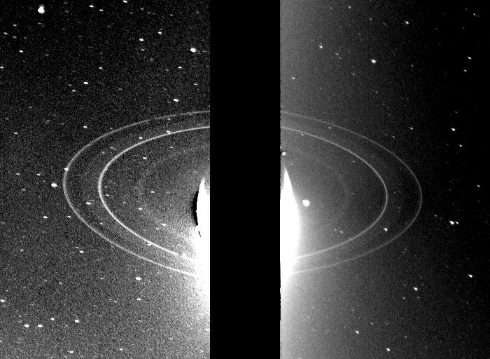 two 591-second exposures of the rings of Neptune were taken with the clear filter by the Voyager 2 wide-angle camera on Aug. 26, 1989 from a distance of 280,000 kilometers (175,000 miles).